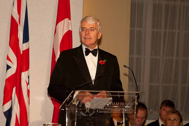 Chatham House President and former UK Prime Minister Sir John Major congratulating President Gül